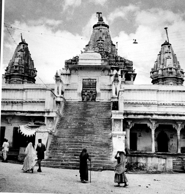 Caption:- DPD/1949, A04bUDAIPUR-A The Jagdesh Temple Photo Number:-10948